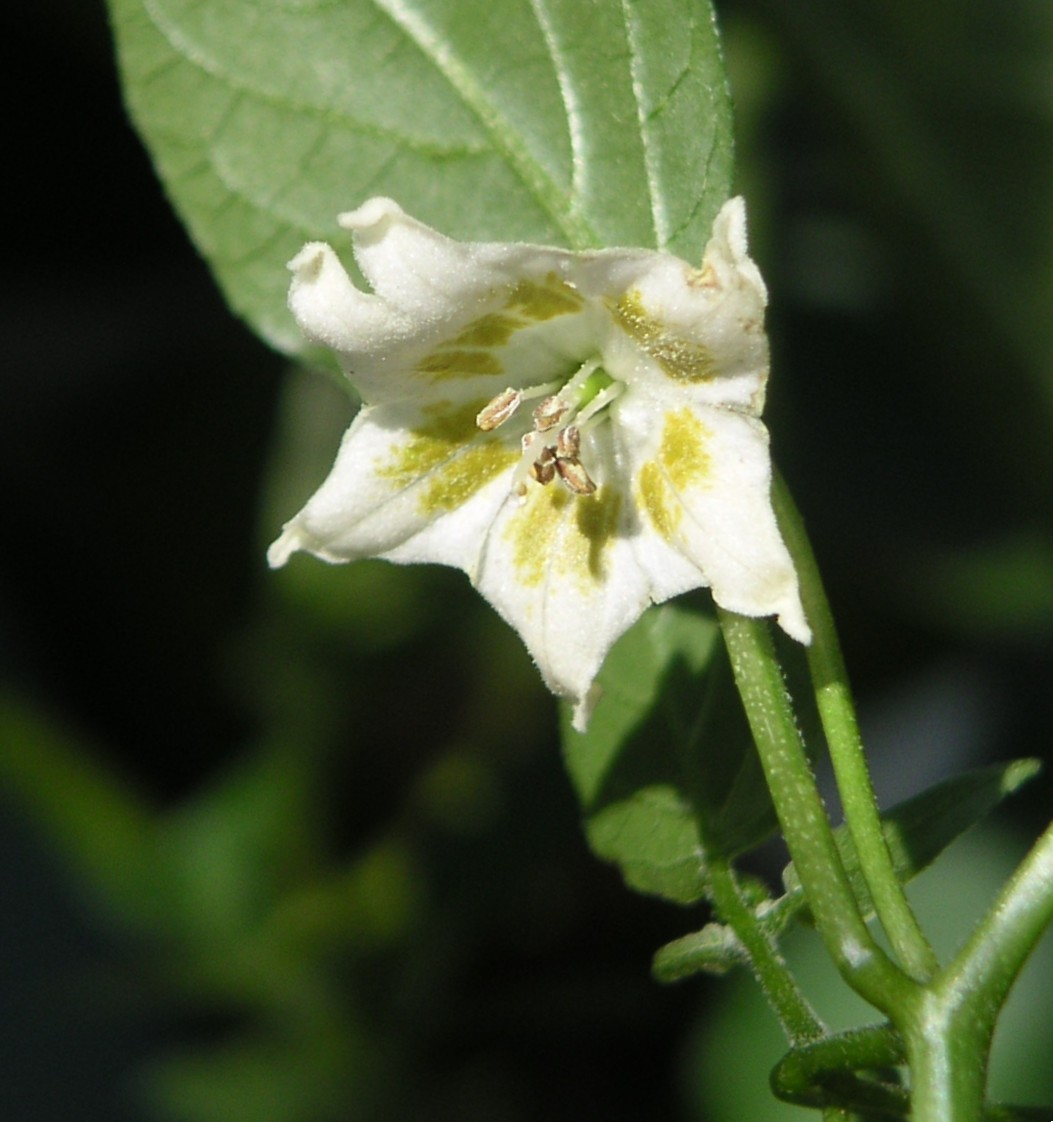 Flower of Capsicum baccatum cv. 'Criolla Sella'